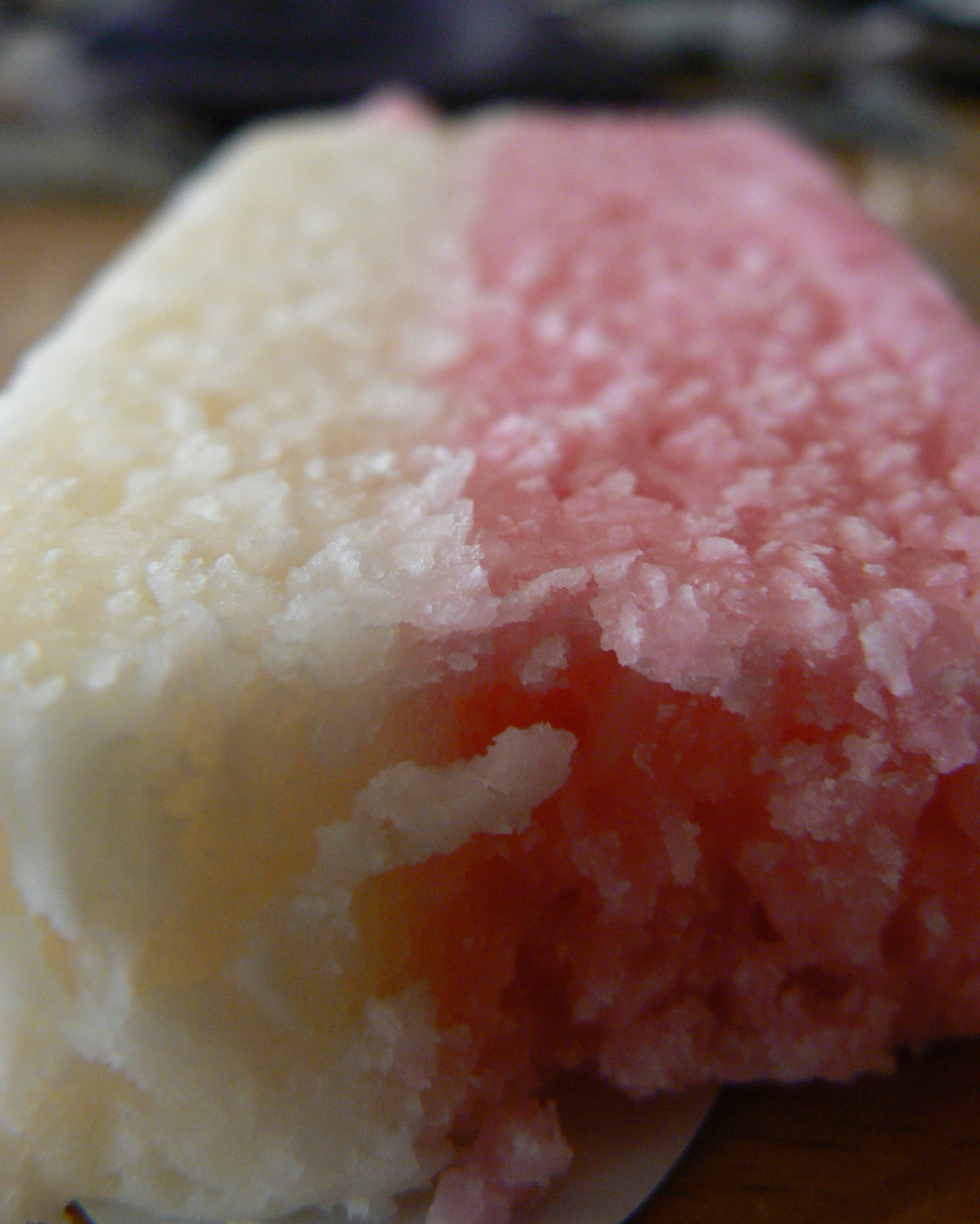 Coconut ice confection